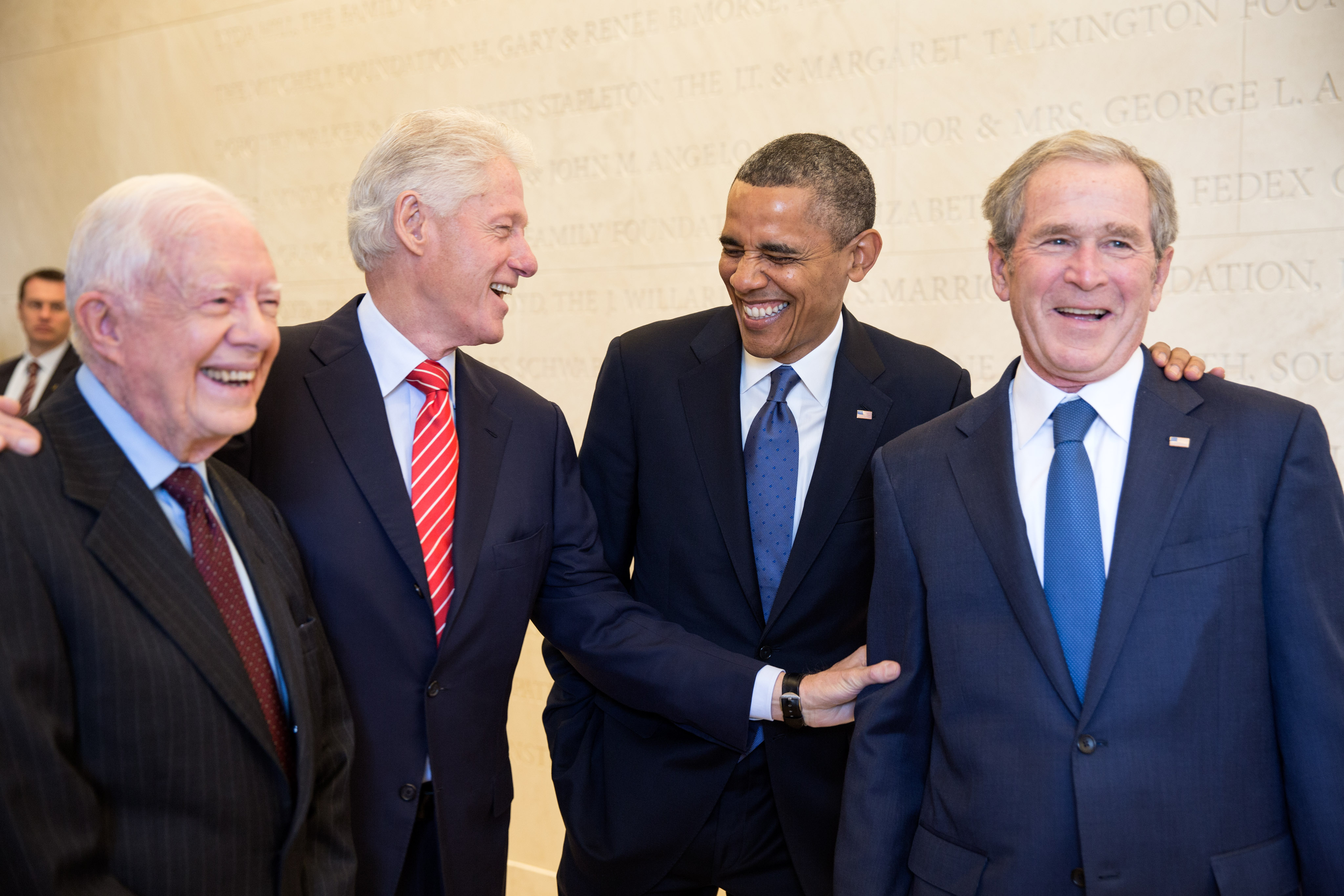 United States President Barack Obama with former presidents Jimmy Carter, Bill Clinton, and George W. Bush, prior to the dedication of the George W. Bush Presidential Library and Museum on the campus of Southern Methodist University in Dallas, Texas on 25 April 2013.